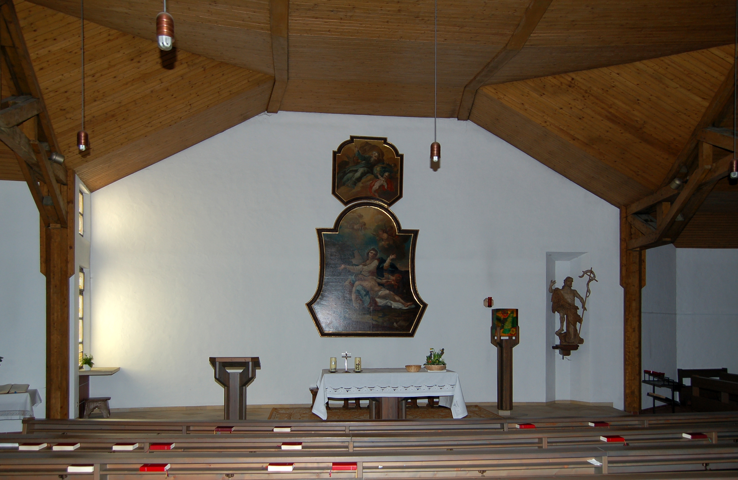 Interior of new parish church in Klaus an der Pyhrnbahn, Upper Austria.